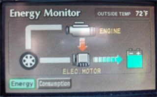 Energy flow monitor on 2003 Prius